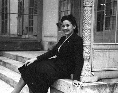 Josefa "Pepita" Embil (also spelled Enbil in Basque), the mother of tenor Plácido Domingo, at the headquarters of Eresoinka, the Basque national choir, in Le Belloy, Saint-Germaine-en-Laye, France (June 8, 1939)